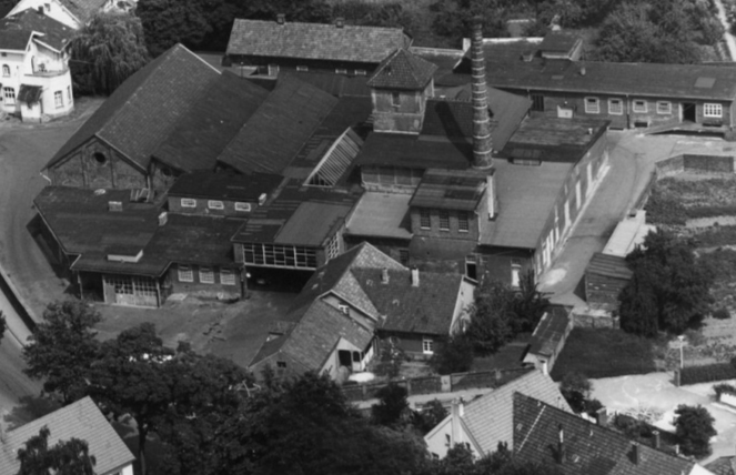 Airview of the Soester Schlachthof, Germany